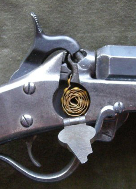 Maynard tape-primer box and mechanism